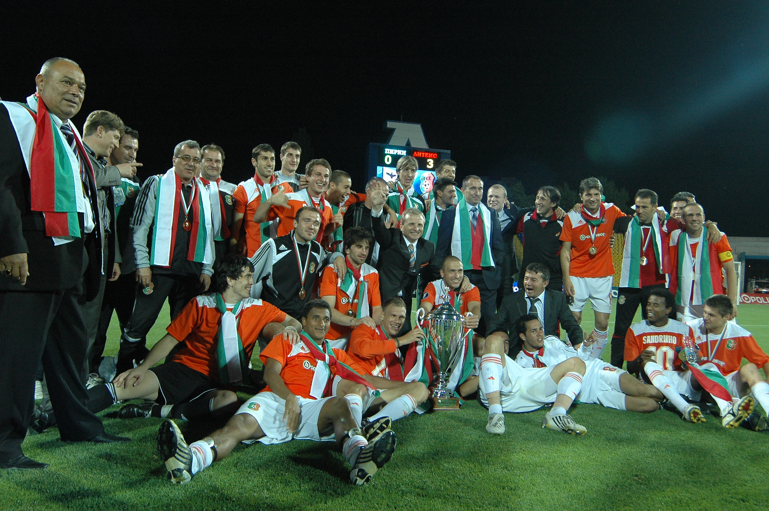 Litex Lovech - Bulgarian Cup Winner 2009